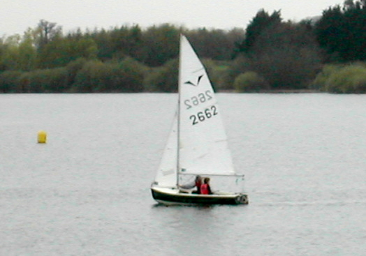 Picture of a Gull sailing dinghy